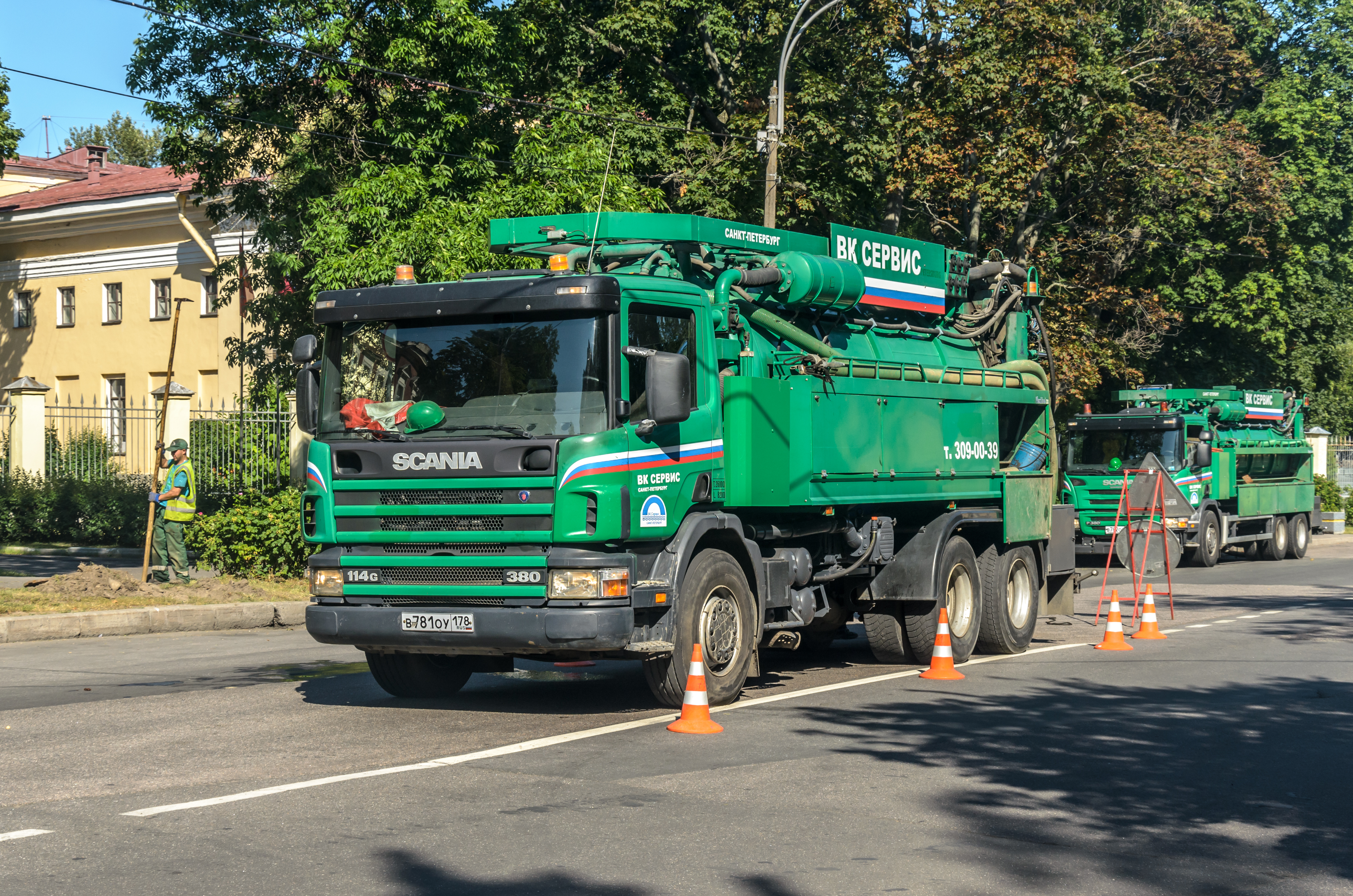 Vehicle of Sewerage Services in Kronstadt